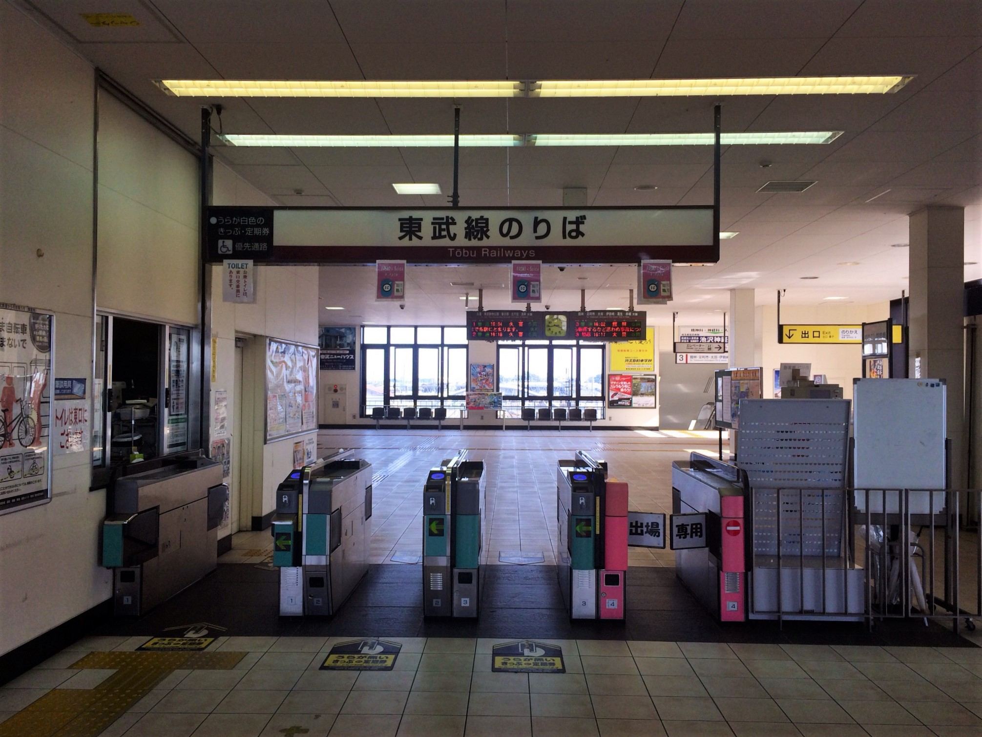 The ticket barriers at Hanyu Station on the Tobu Isesaki Line